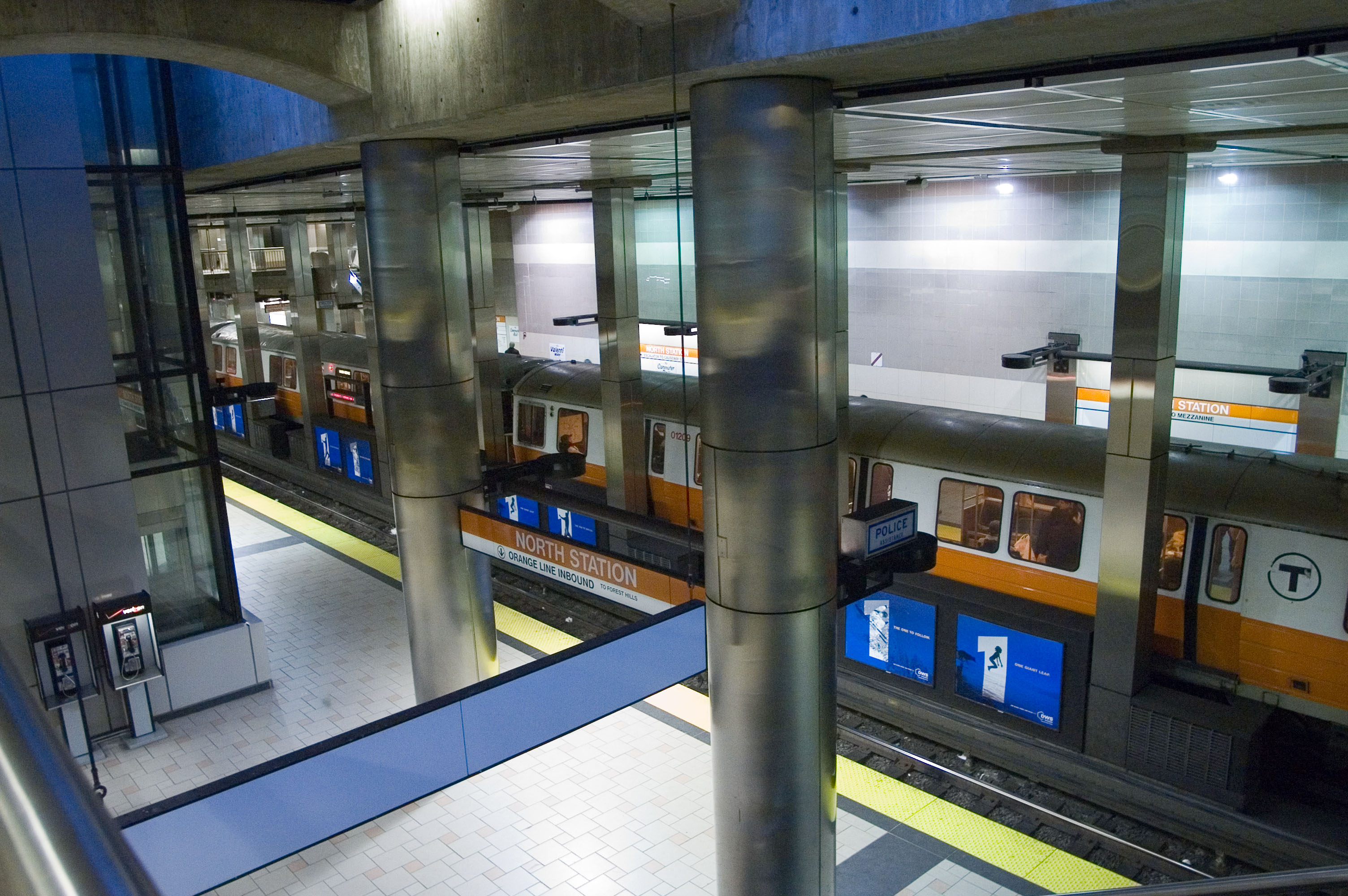 An outbound Orange Line train waits for passengers at the newly renovated North Station 'superstation' in 2006